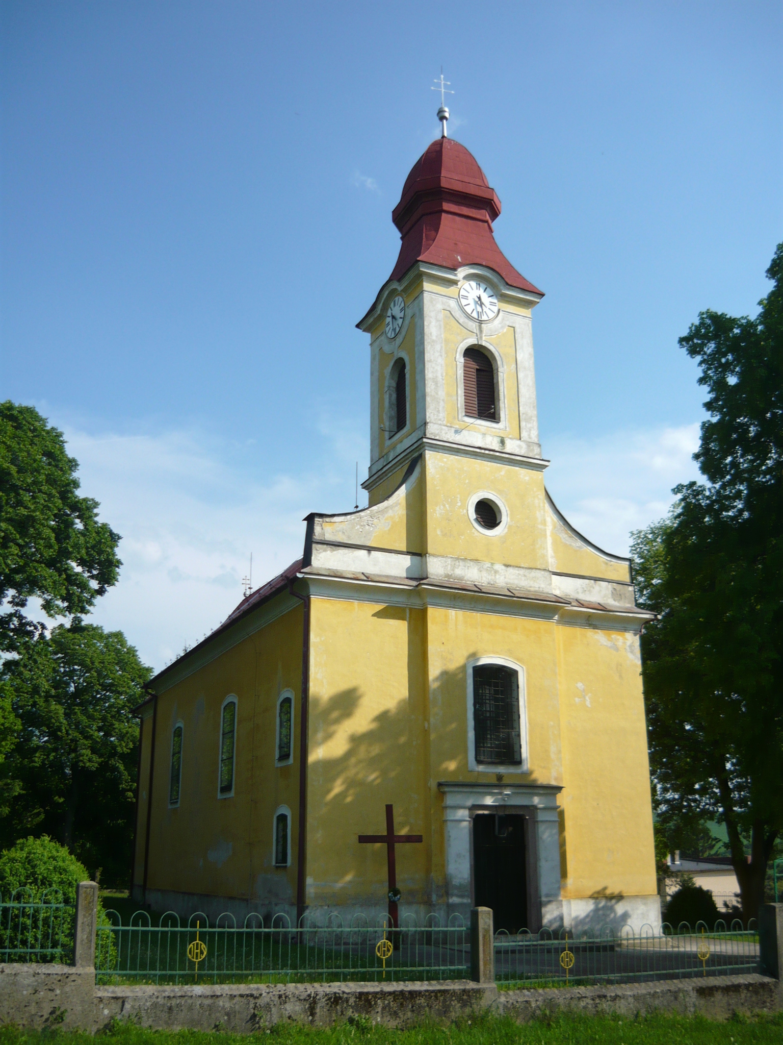 Church in Krásno, Partizánske district, Slovakia.